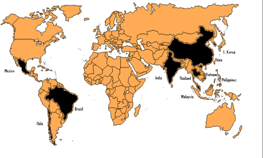 Previous destinations STAR Erasmus Consultancy Project